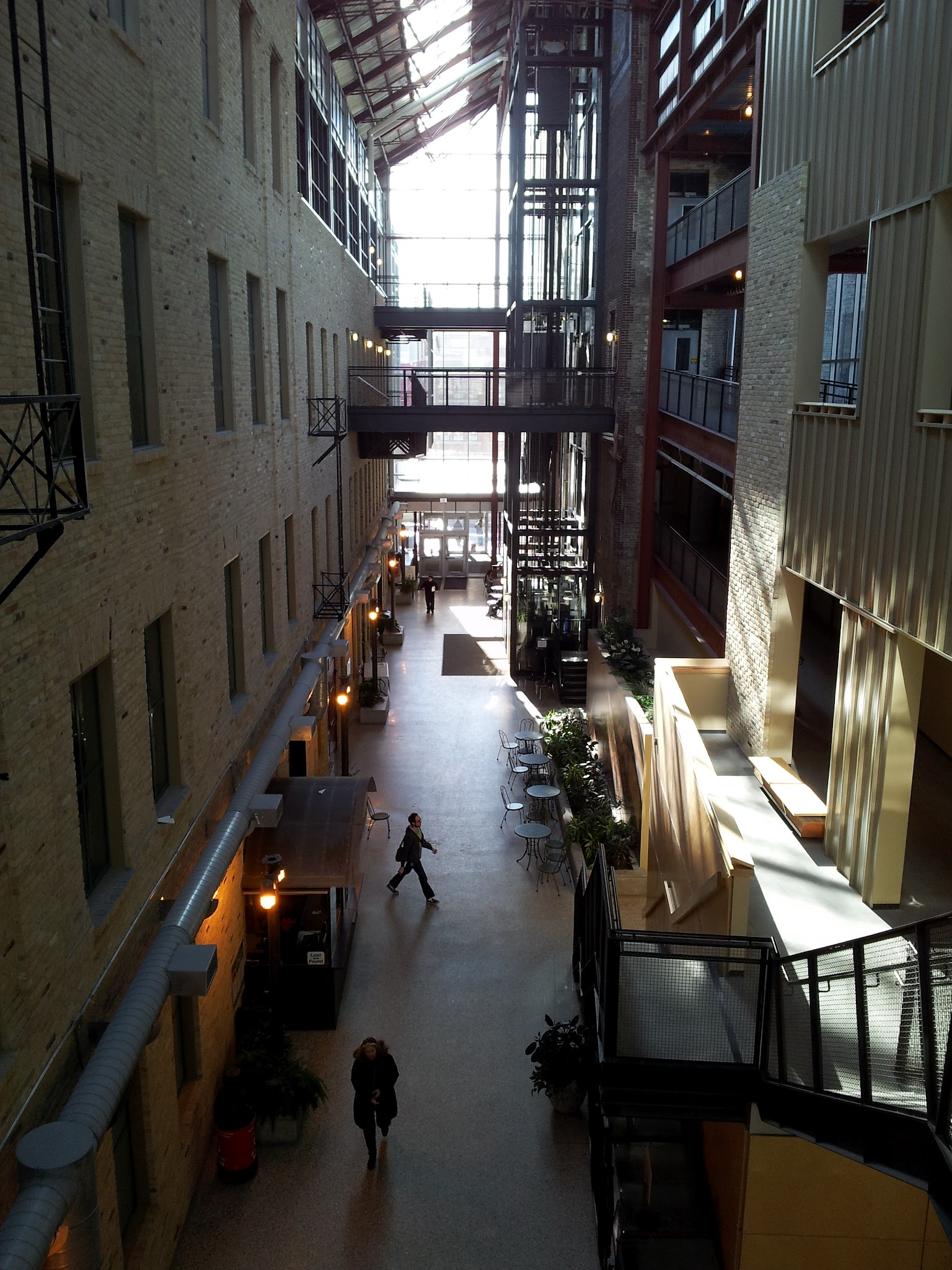 The atrium of Red River College's Roblin Campus, in Winnipeg, Manitoba, Canada.